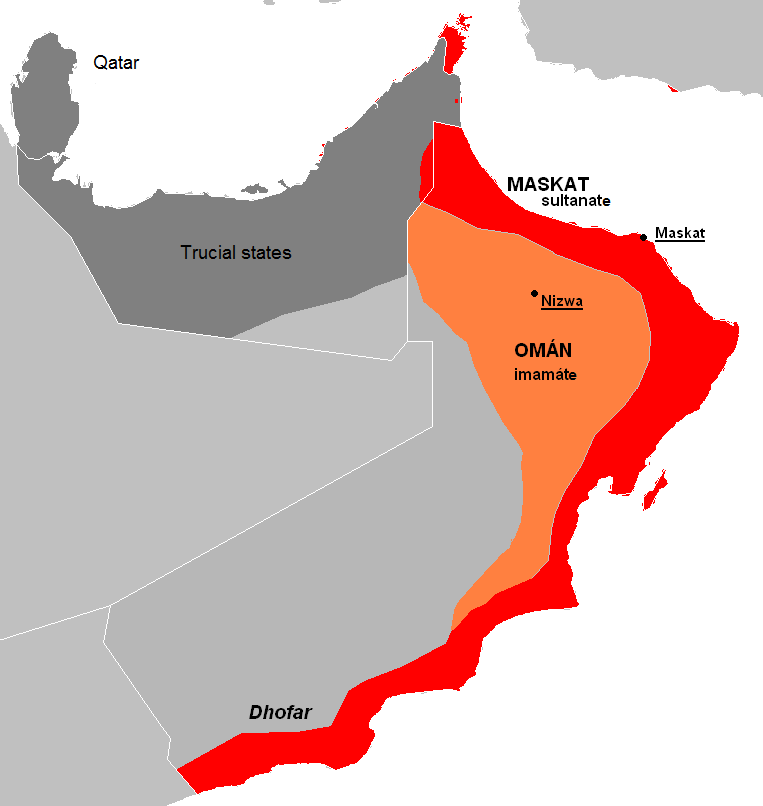 The approximate map of historic state of Mascat and Oman.